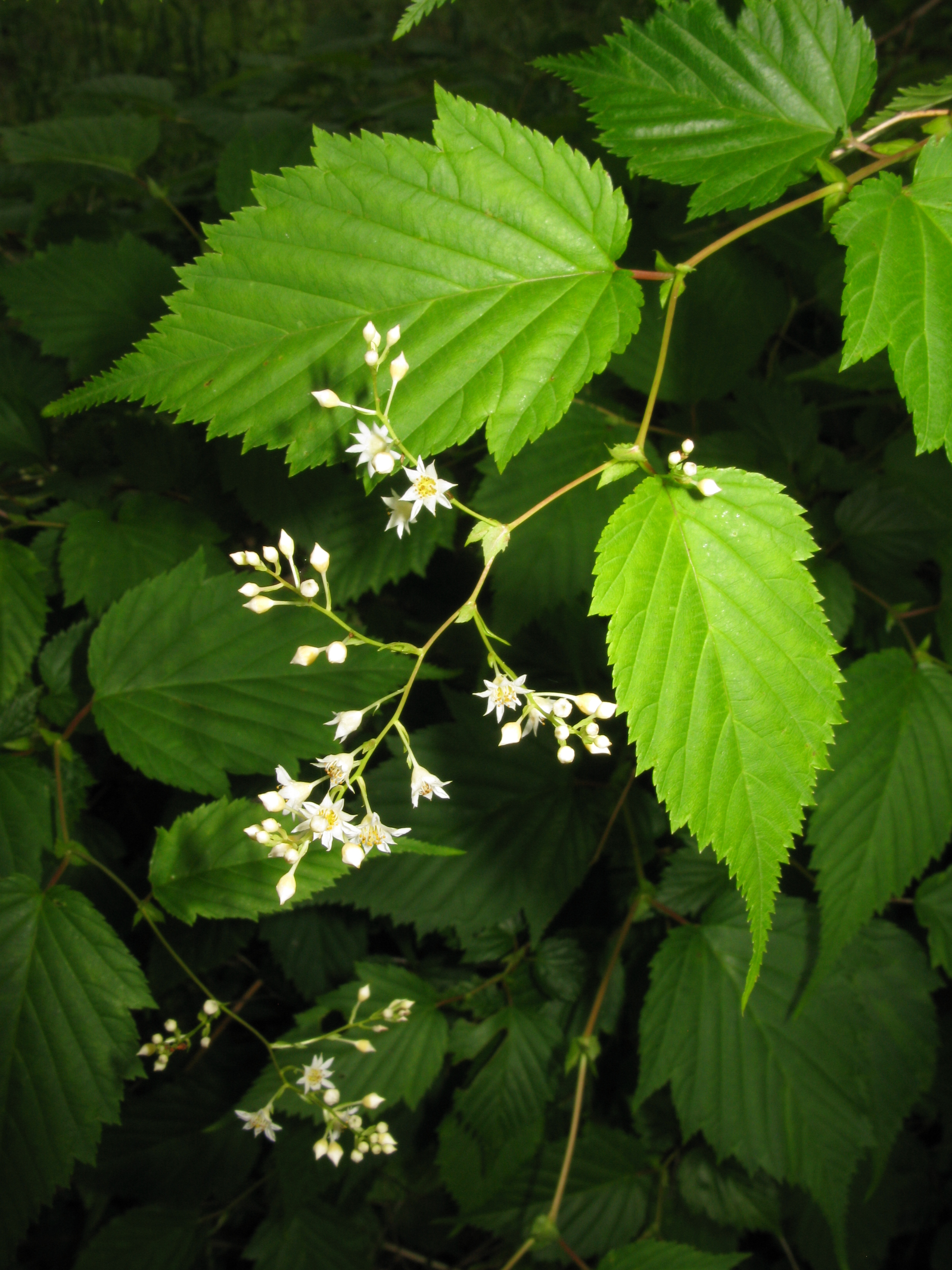 Stephanandra tanakae, Koishikawa, Botanical Gardens, the University of Tokyo, Japan